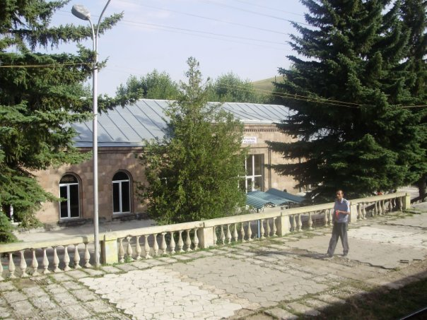 The railway station in the town Hrazdan, marz (region), Kotayk, Armenia. View from the train.